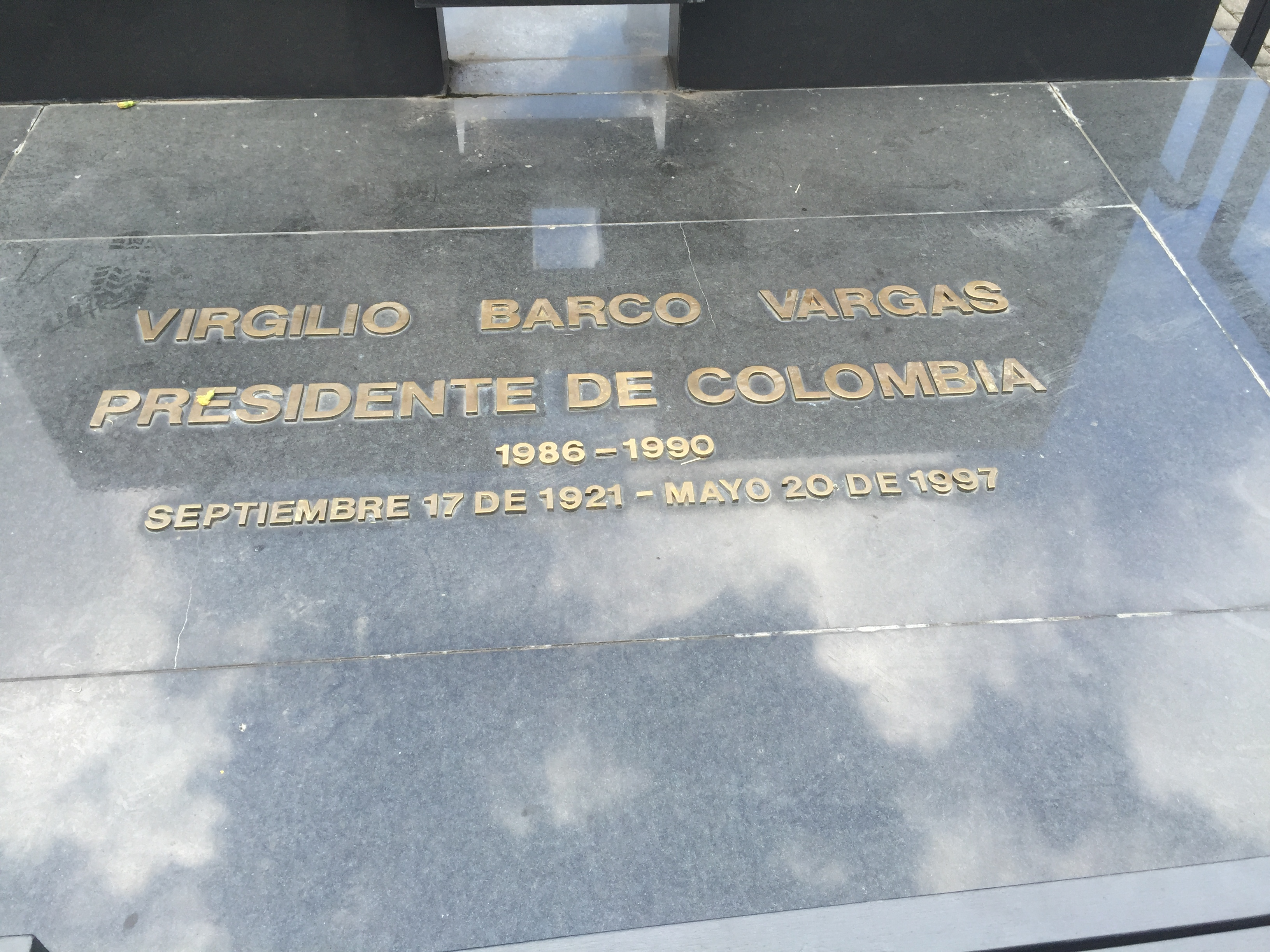 Grave of Virgilio Barco, President of Colombia.